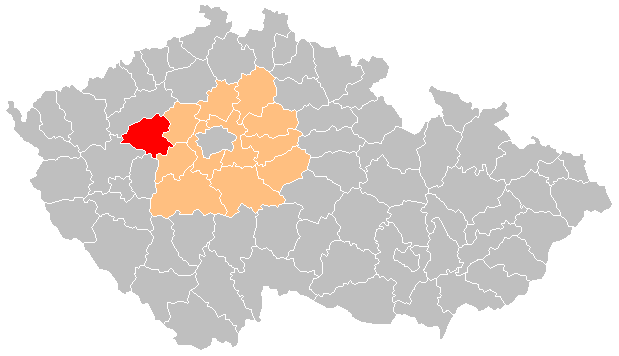 Rakovník District within Central Bohemian Region. Current borders of districts since January 1, 2007.